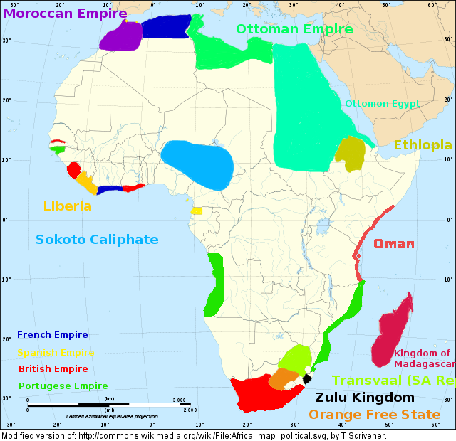 Map of Africa during 1850s. Lambert azimutal equal-area projection, WGS84 datum, standard meridian: 15°E, standard parallel: 0° Scale: 1:15,000,000 (accuracy: 3,75 km)